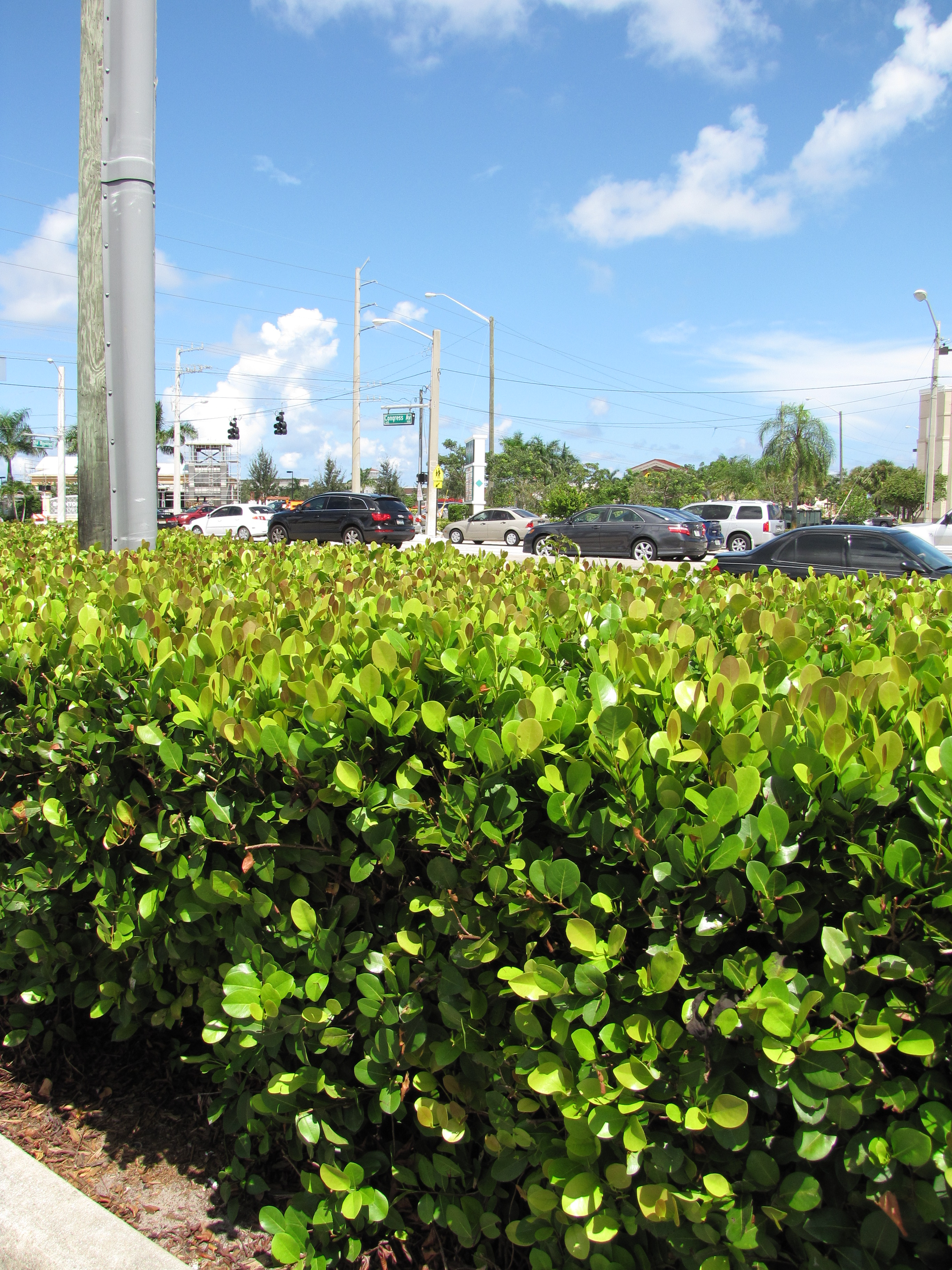 Chrysobalanus icaco-hedge in Boynton Beach, Florida